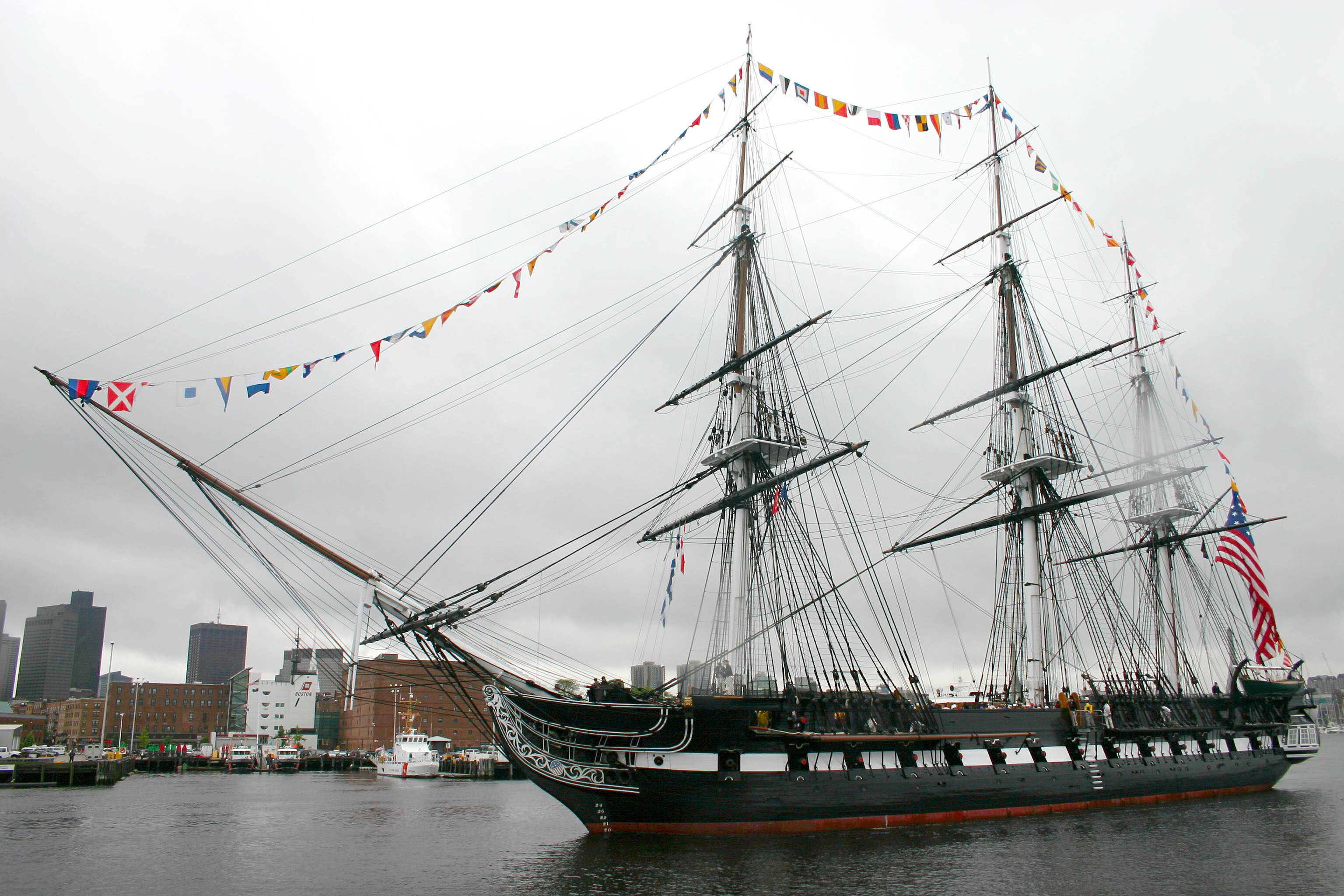 060610-N-8110K-022 Boston, Mass. (June 10, 2006) - USS Constitution, “Old Ironsides” gets underway for a turn-around cruise in Boston Harbor. The world's oldest commissioned warship [afloat] will cruise to Fort Independence on Castle Island where it will fire a 21-gun salute before returning to its berth at the Charlestown Navy Yard. The turn-around cruise is one of the high points of Boston Navy Week. Twenty-four such weeks are planned this year in cities throughout the U.S., arranged by the Navy Office of Community Outreach (NAVCO). NAVCO is tasked with enhancing the Navy's brand image in areas with limited exposure to the Navy.